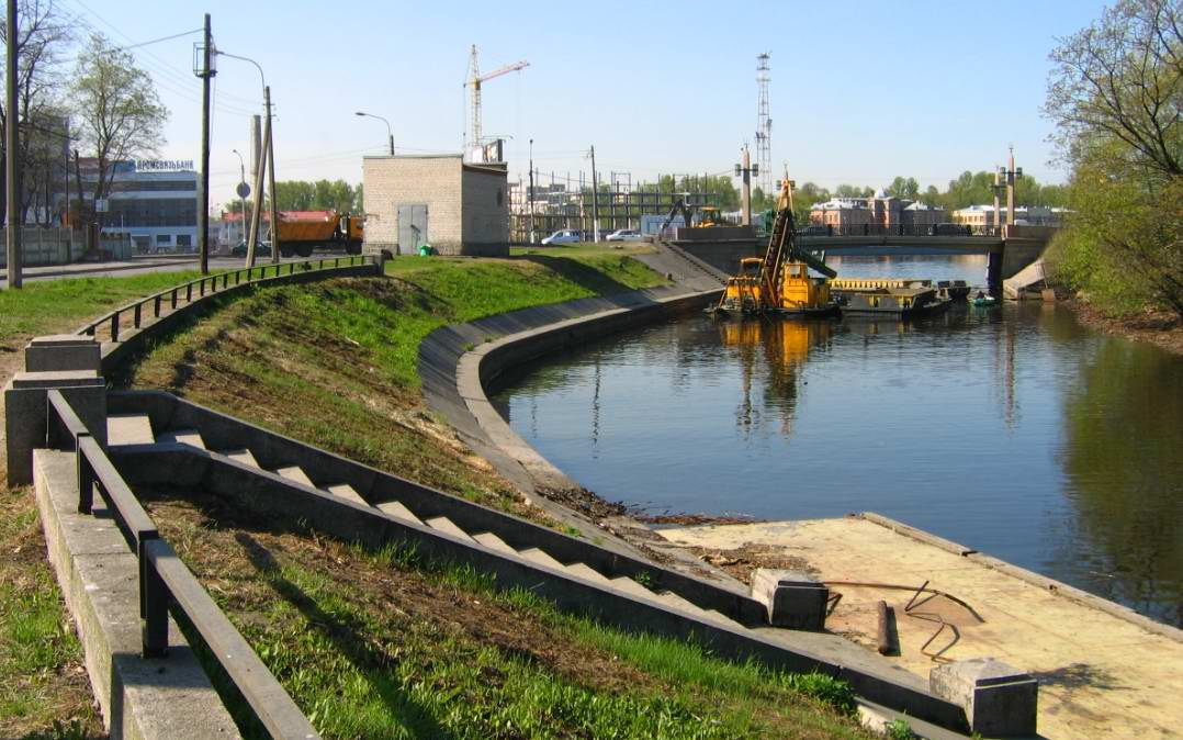 Chernay Rechka (river) mouth in Saint-Petersburg, Russia